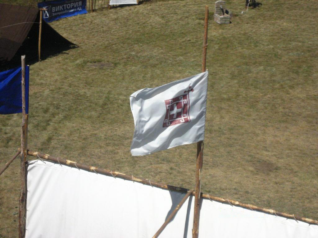 It is a picture that I have taken.